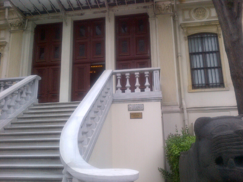 The old building of the School of Fine Arts of Istanbul. The building is now part of the Museum of Archeology of Istanbul.